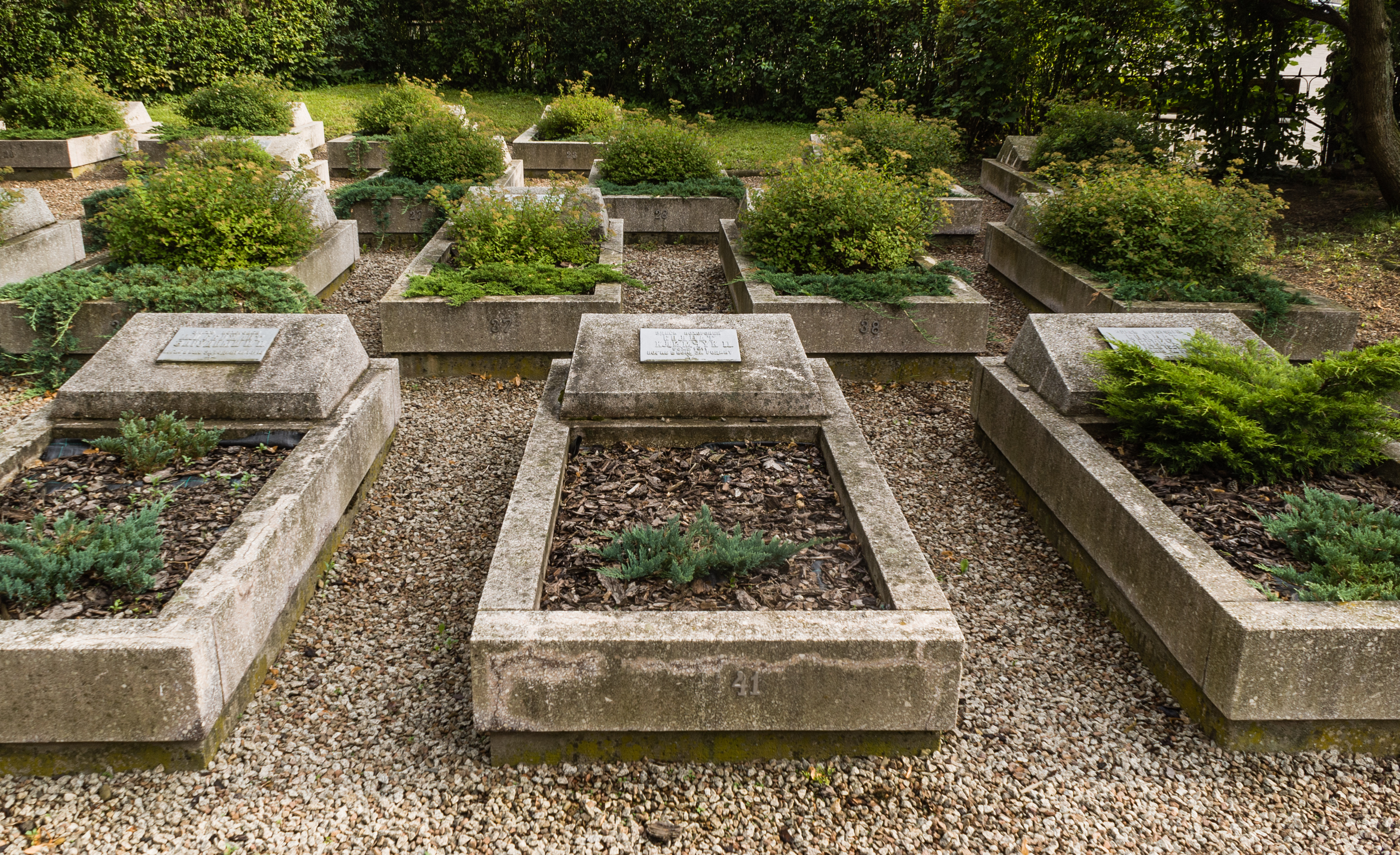 Soviet military cemetery in Krosno, Poland.